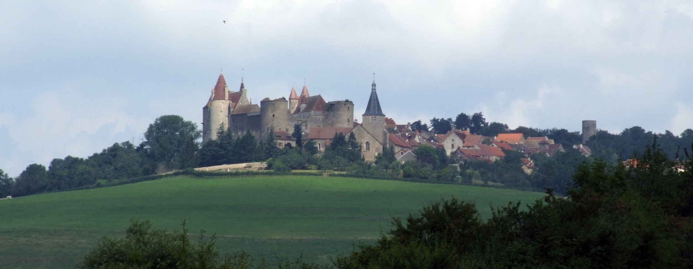 Chateauneuf, Bourgogne, France